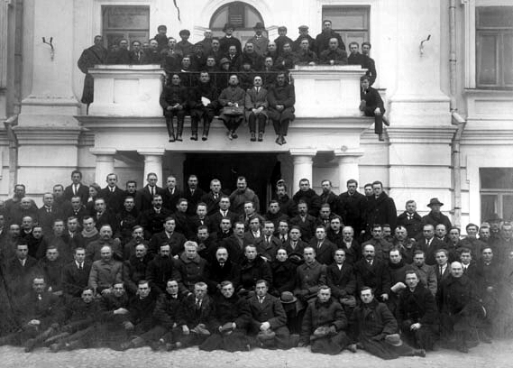 Seimas of Lithuania in 1926 (Museum Aušra)